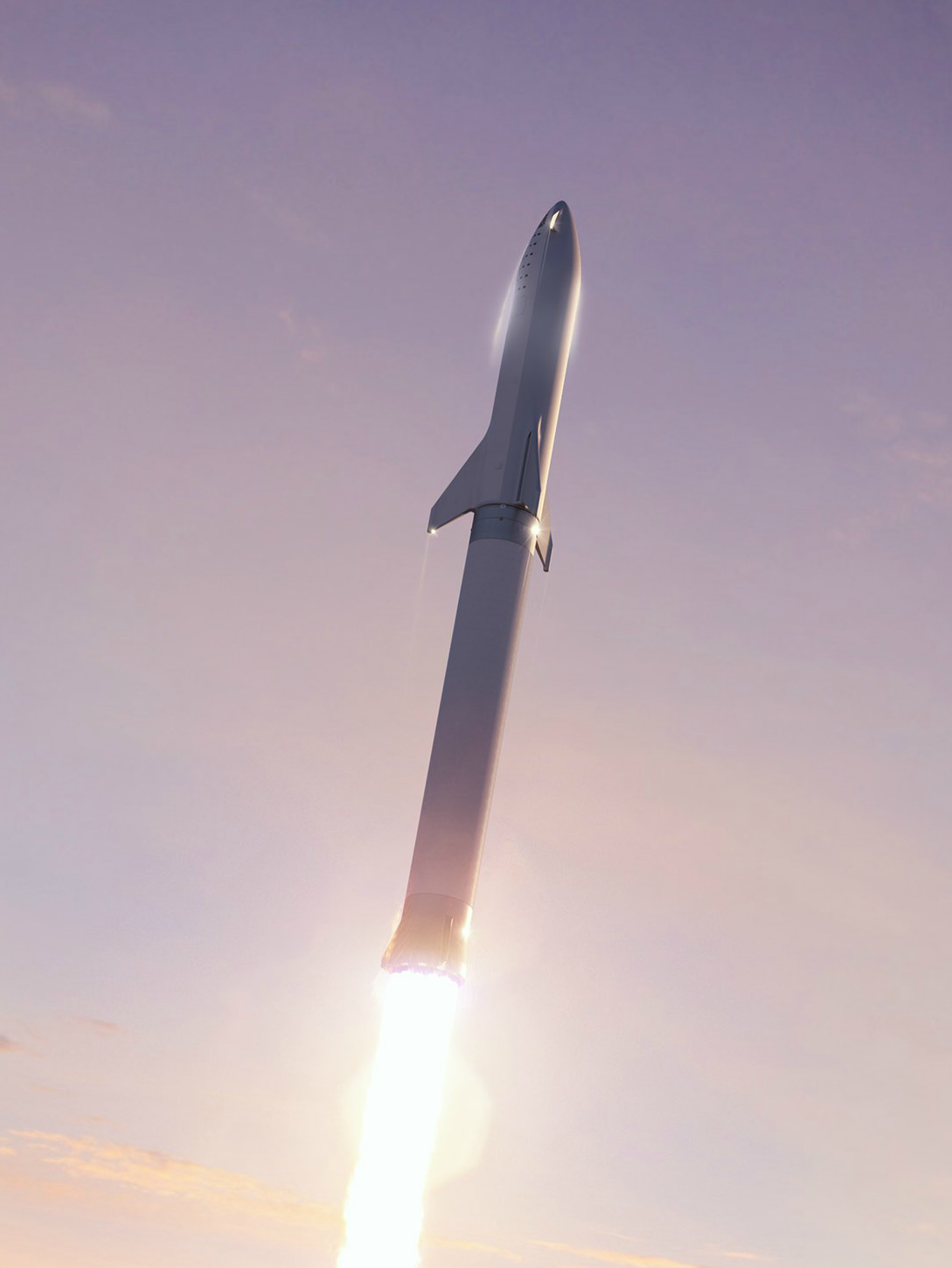 The Starship/Super Heavy during ascent (2018 design iteration)